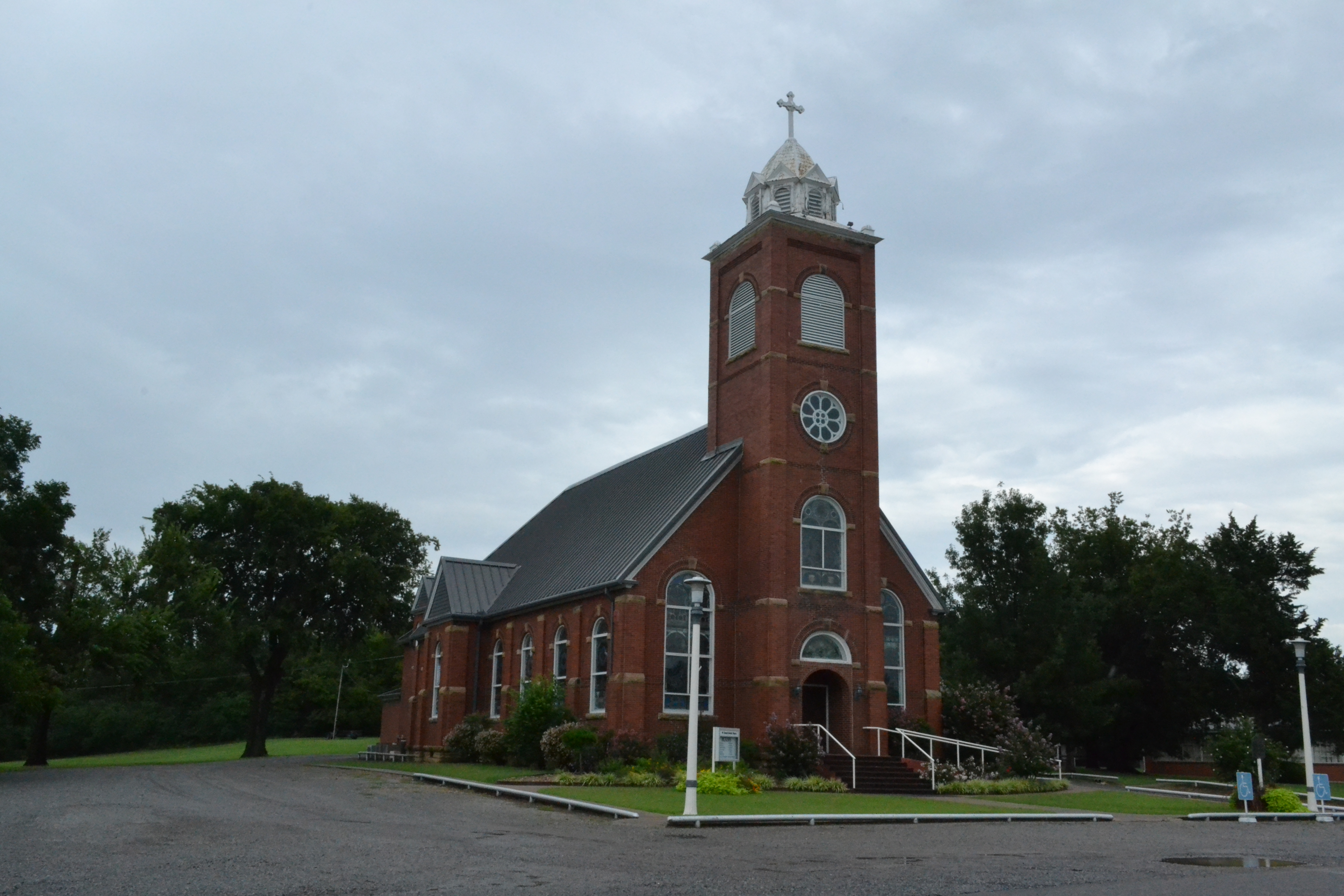 St. Joseph's Catholic Church in Krebs, OK. Listed on the National Register of Historic Places.